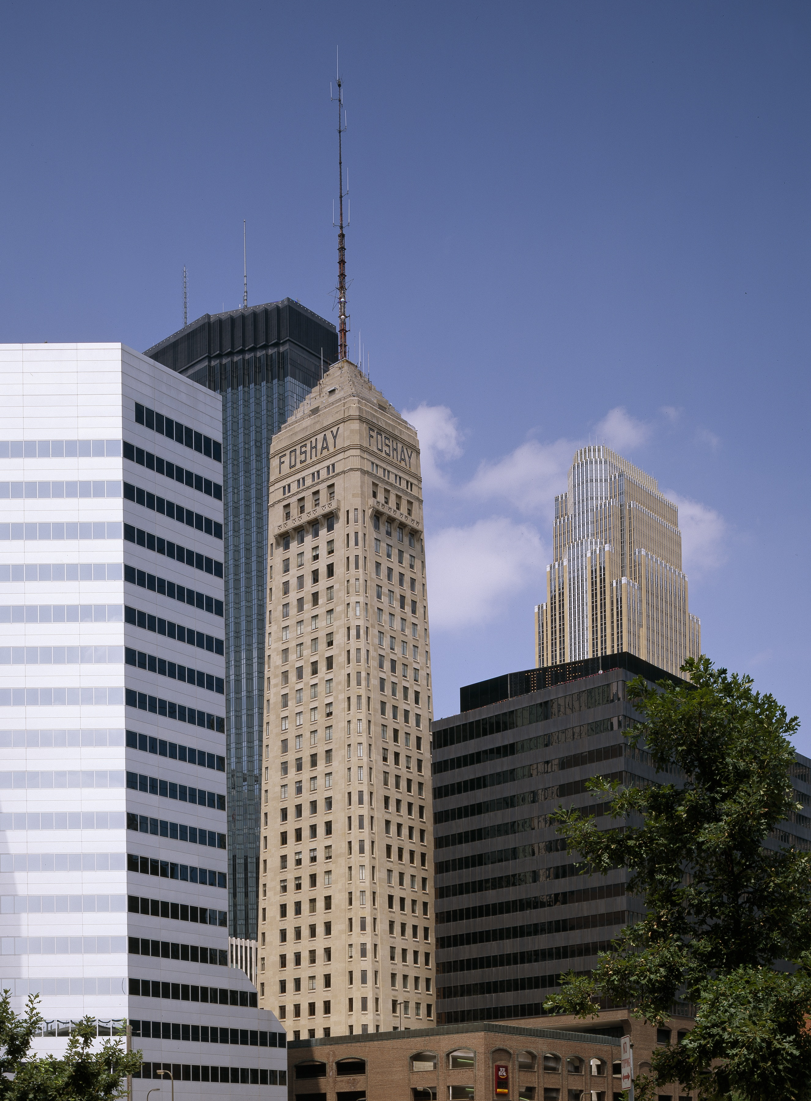 The Foshay Tower, now the W Minneapolis– The Foshay hotel, is a skyscraper in Minneapolis, Minnesota. Modeled after the Washington Monument, the building was completed in 1929 months before the stock market crash in October of that year. It has 32 floors and stands 447 feet (136 m) high, plus an antenna mast that extends the total height of the structure to 607 feet (185 m).